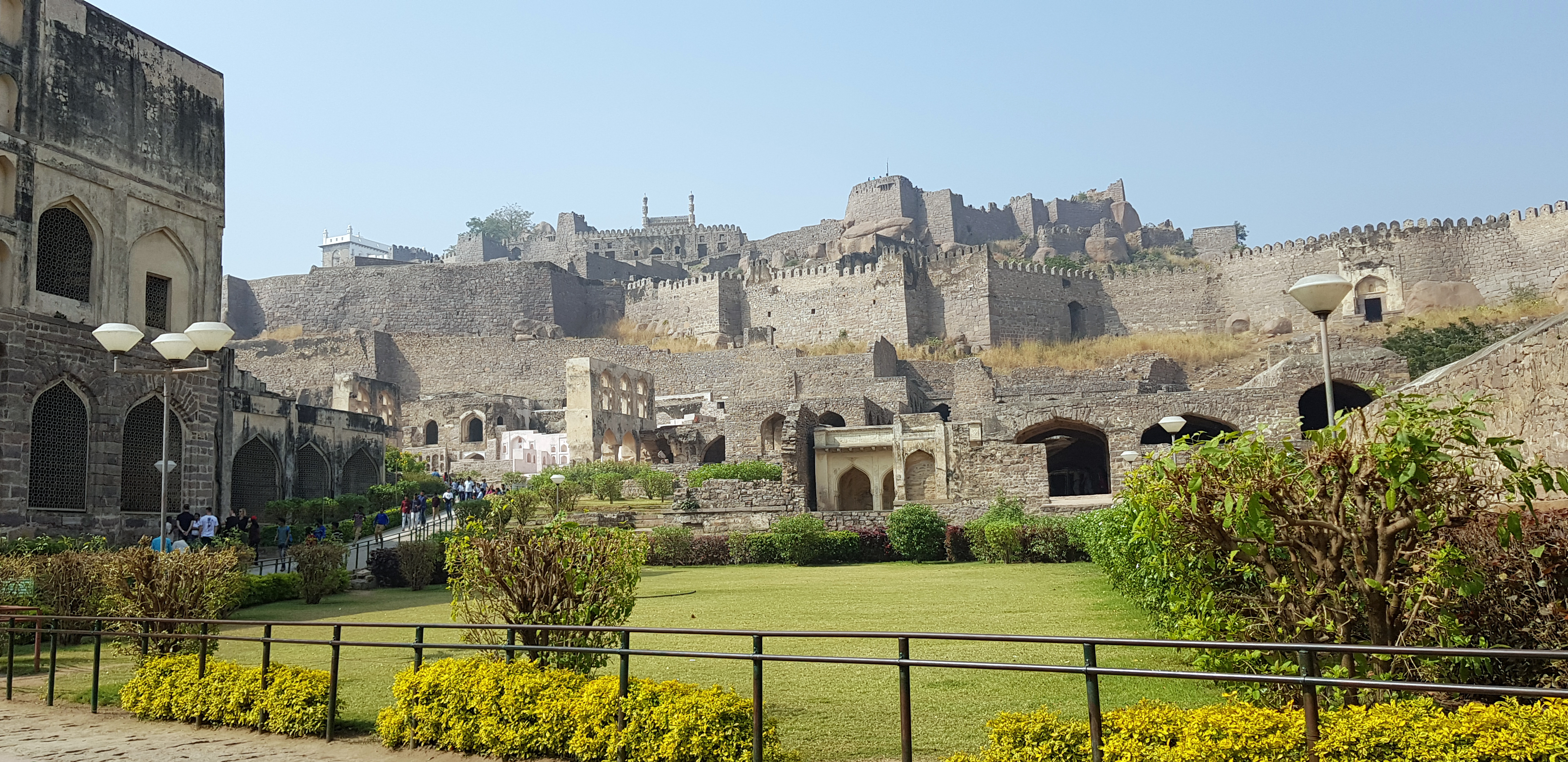 Golkonda Fort